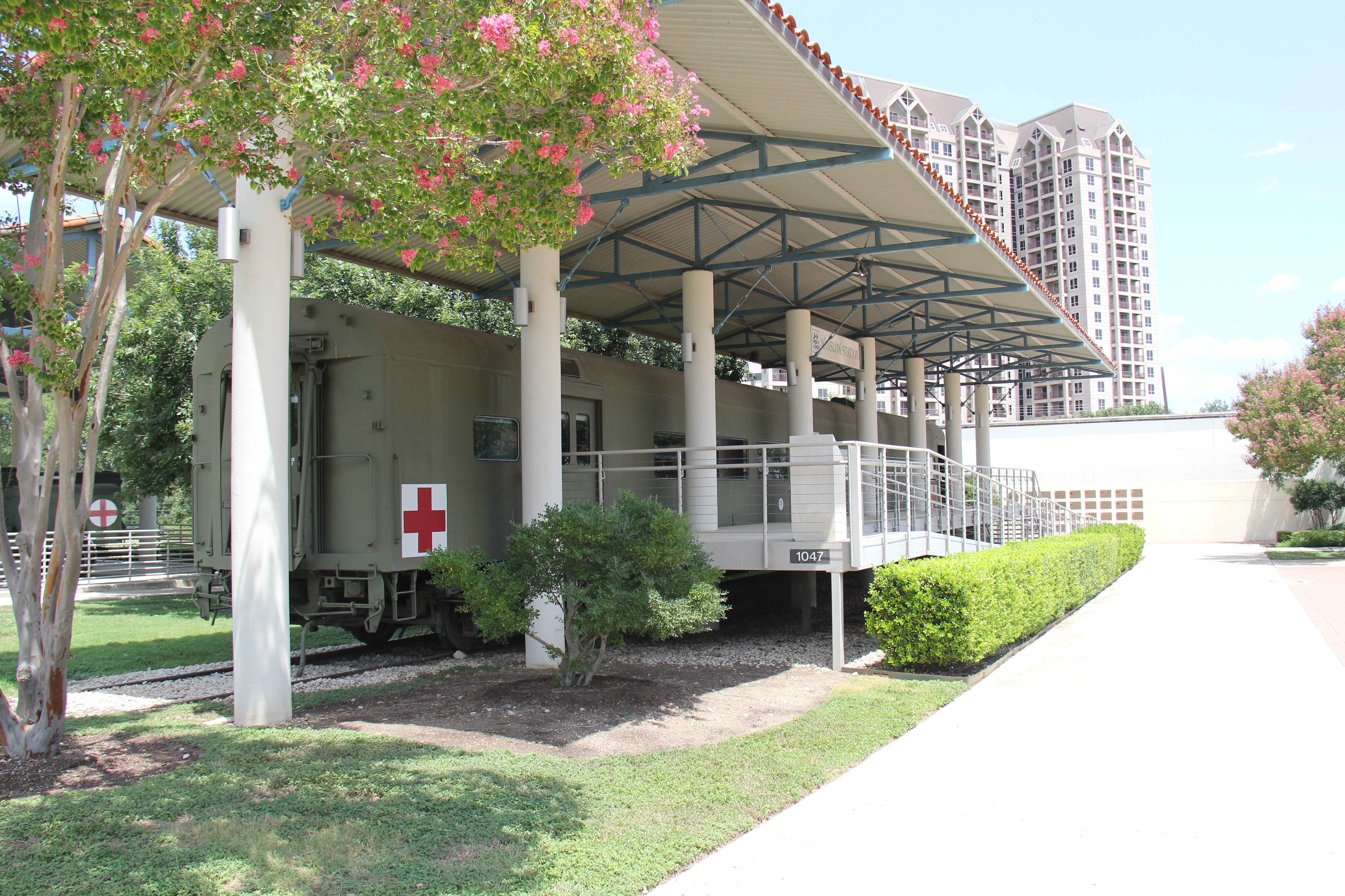 United States Army Medical Rail Car (United States Army Medical Department Museum, San Antonio, Texas)